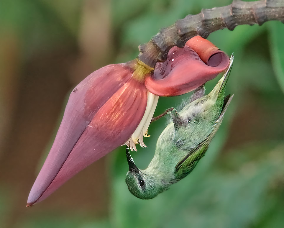 Red-legged Honeycreeper - female